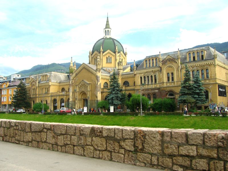 It was Monday... The last Monday in May... And silence was interrupted! Sarajevo, Bosnia